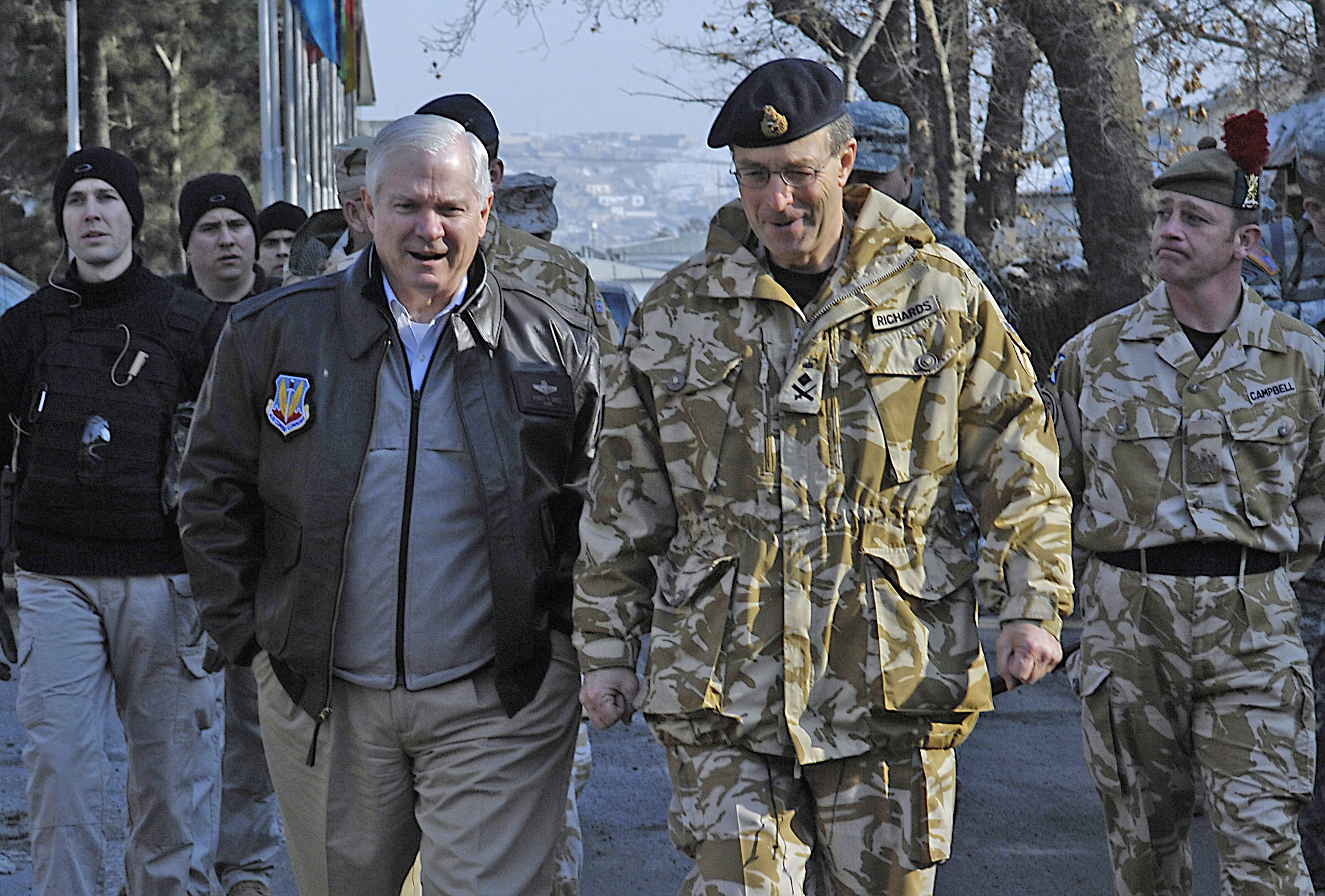 Defense Secretary Robert Gates, center, Commander, International Security Assistance Force Gen. David Richards, walk to the helicopter pad following a meeting in Kabul, Afghanistan, Jan. 16, 2007. Gates is in Afghanistan to meet with top military and coalition leaders, local government officials and U.S. and Afghan National army troops. Defense Dept. photo by Cherie A. Thurlby (released)